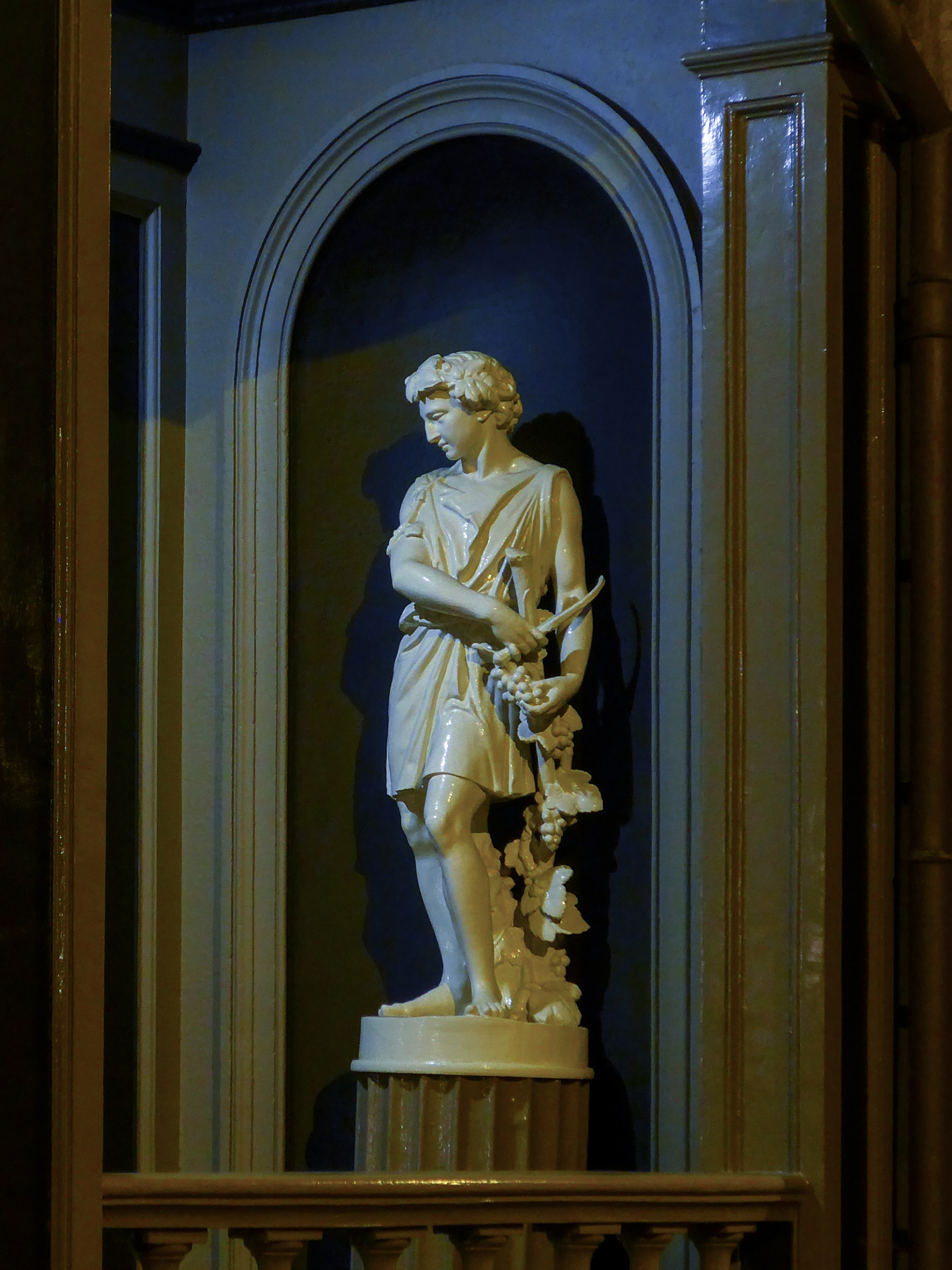 Statue at the Scholtenskoepel (1869), a theekoepel in the Dutch city of Groningen.